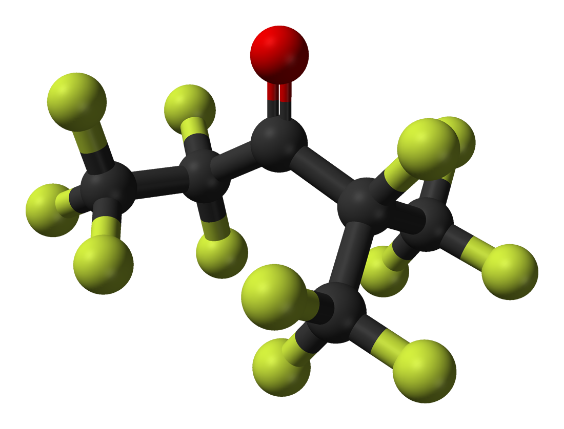 Ball-and-stick model of the Novec 1230 molecule, dodecafluoro-2-methylpentane-3-one, C6F12O.